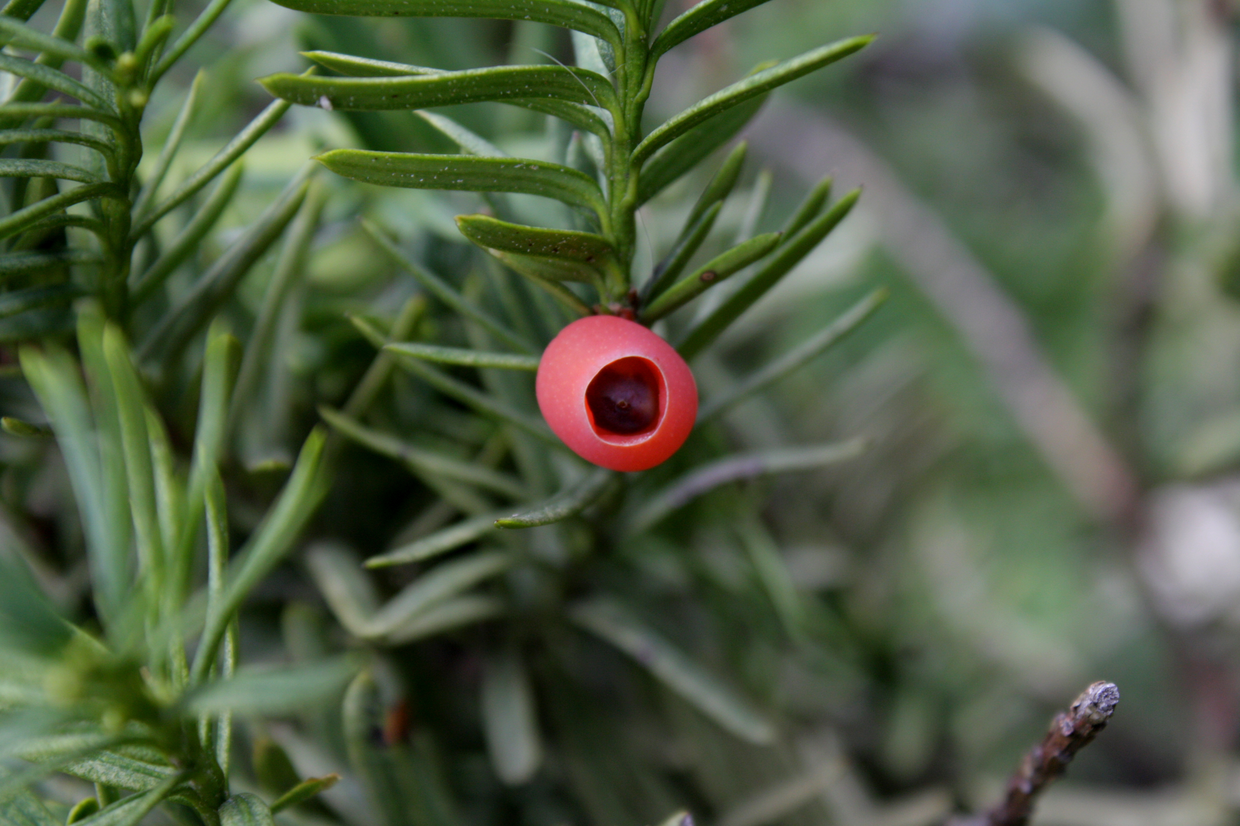 Taxus cuspidata